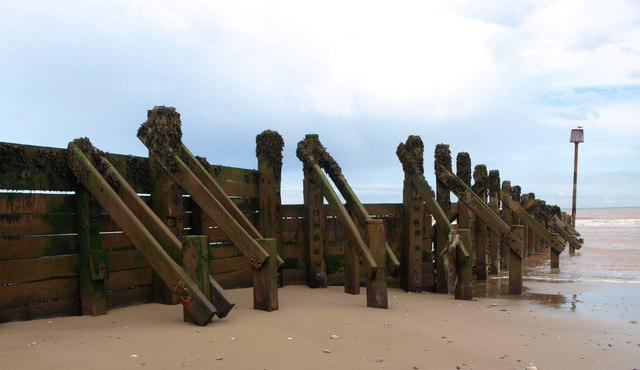 A Withernsea Beach Groyne, Withernsea, East Riding of Yorkshire, England.